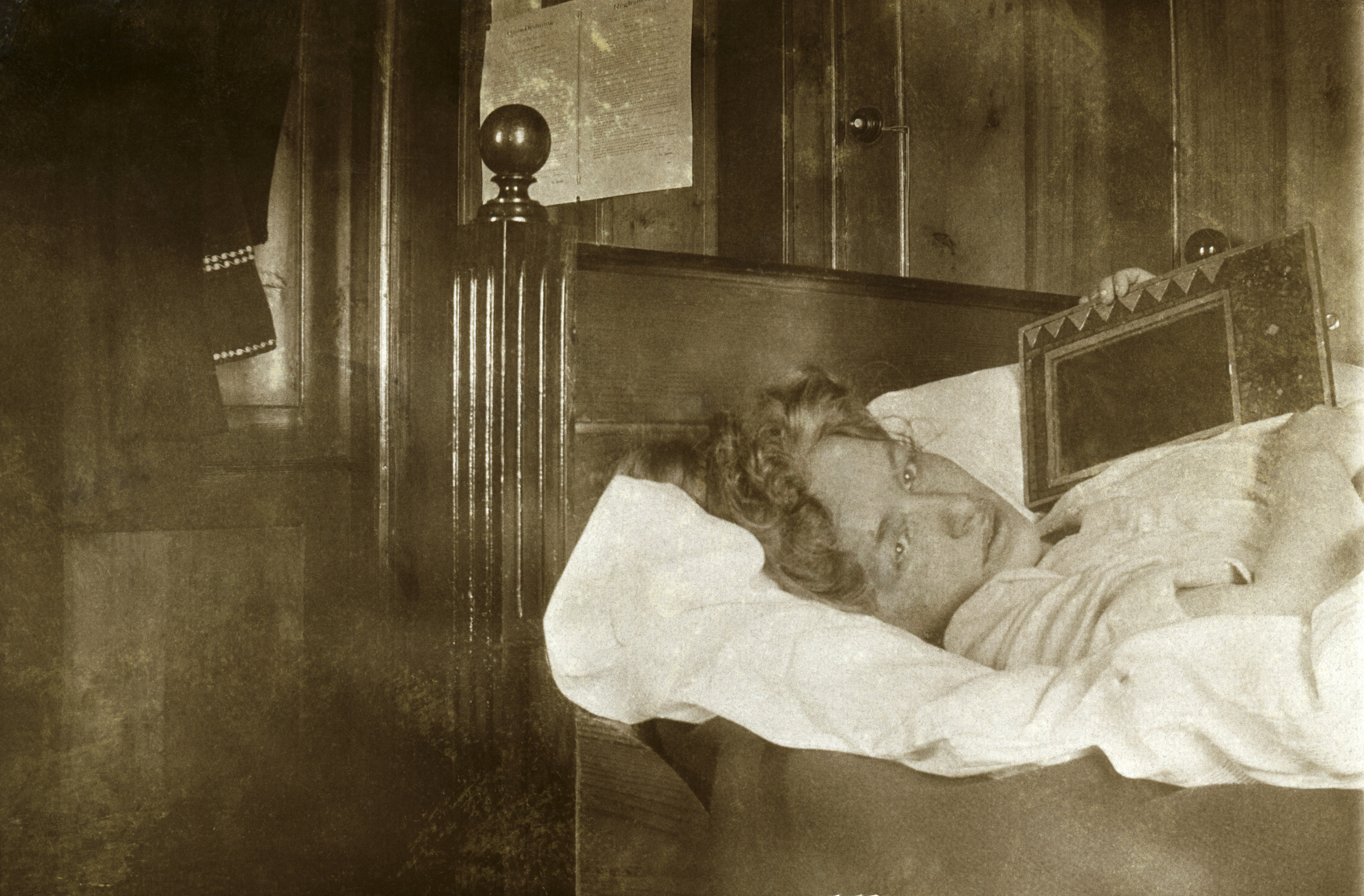 Edith Södergran i sin sjukbädd, Waldsanatorium i Arosa Edith Södergrans samling Signum: slsa566_398 Foto: Edith Södergran Svenska litteratursällskapet i Finland